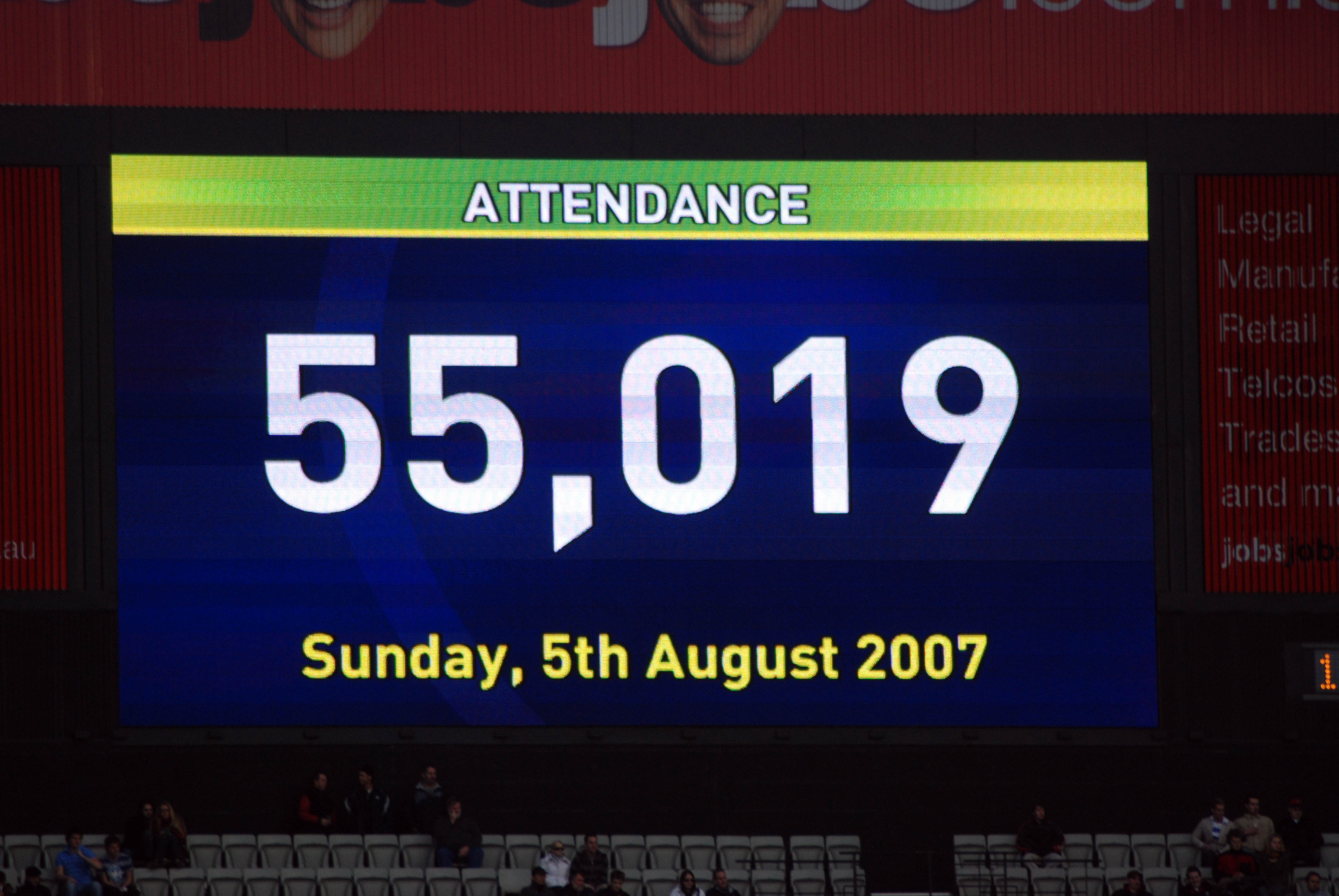 Attendance at MCG